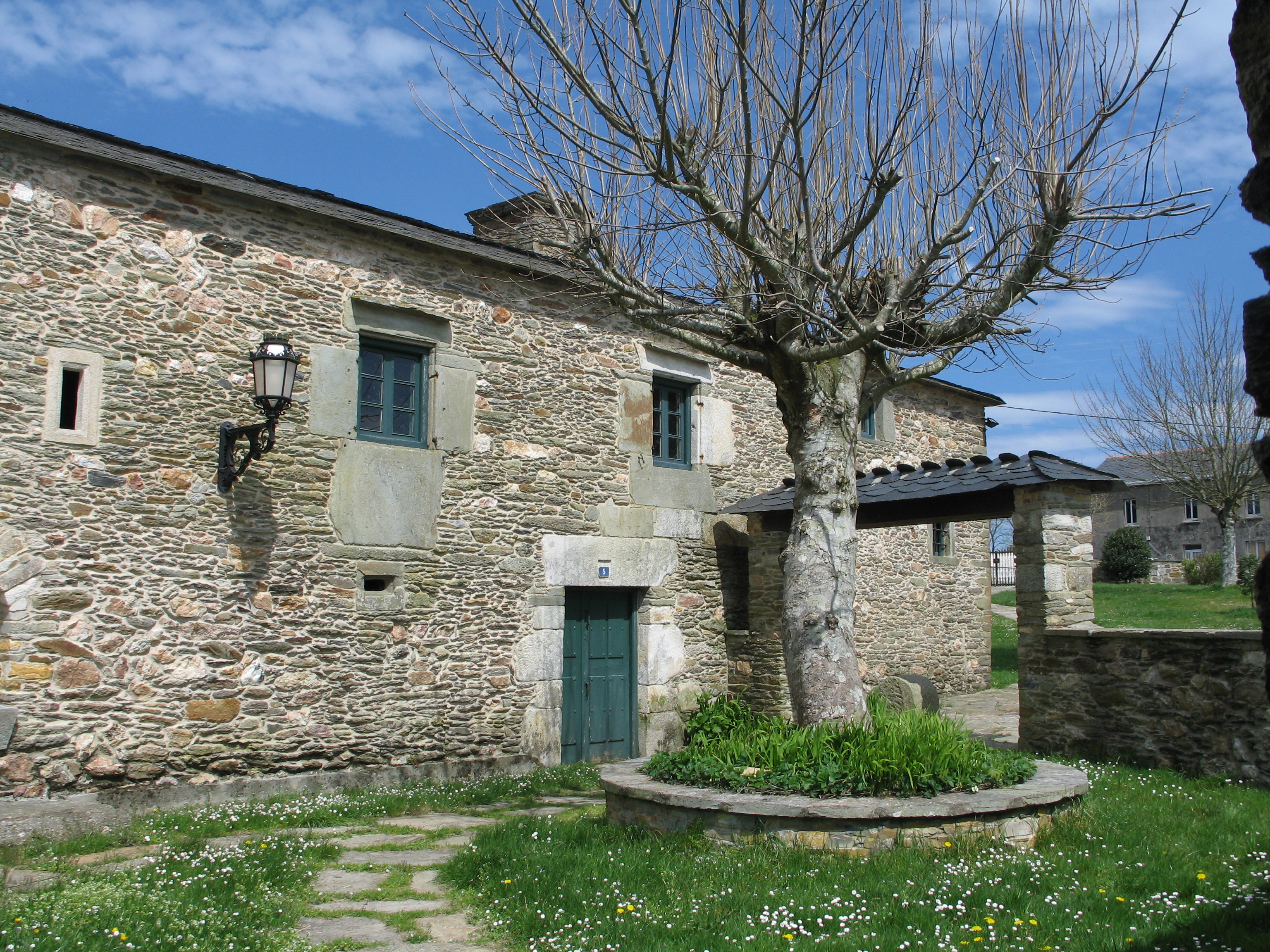 As Grañas do Sor rectory.